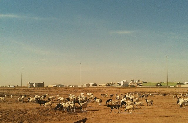 Goats grazing on the arid terrain of northern Qatar, in Madinat ash Shamal.